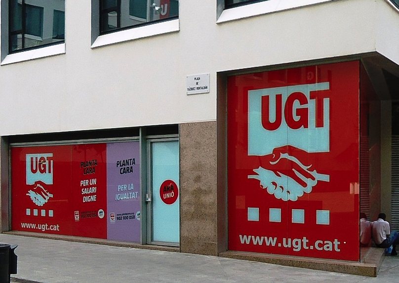 offices of UGT in Barcelona